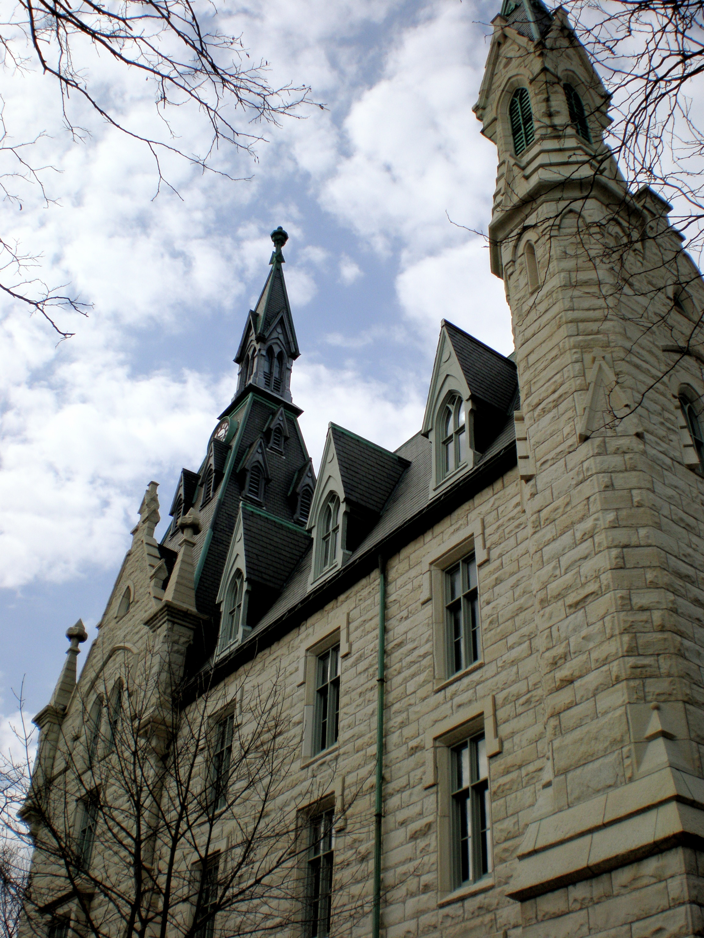 Historic "old college"